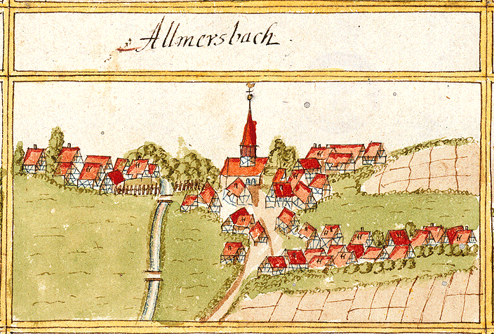 View of Allmersbach im Tal from the forest register books created by Andreas Kieser